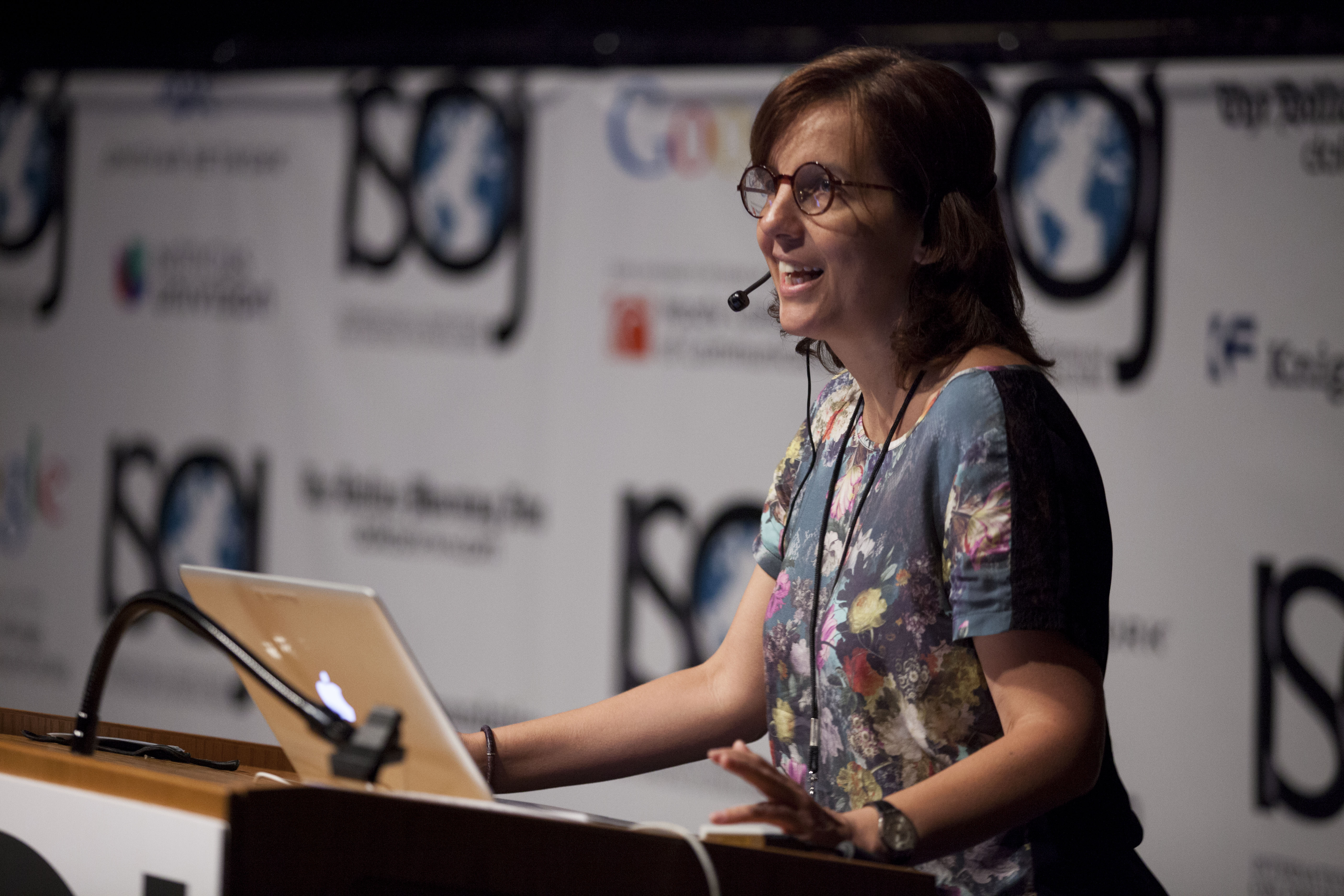 Juanita León, of La Silla Vacía, speaks at the 2014 ISOJ on the University of Texas-Austin campus, Apr. 5, 2014. Gabriel Cristóver Pérez/Knight Center